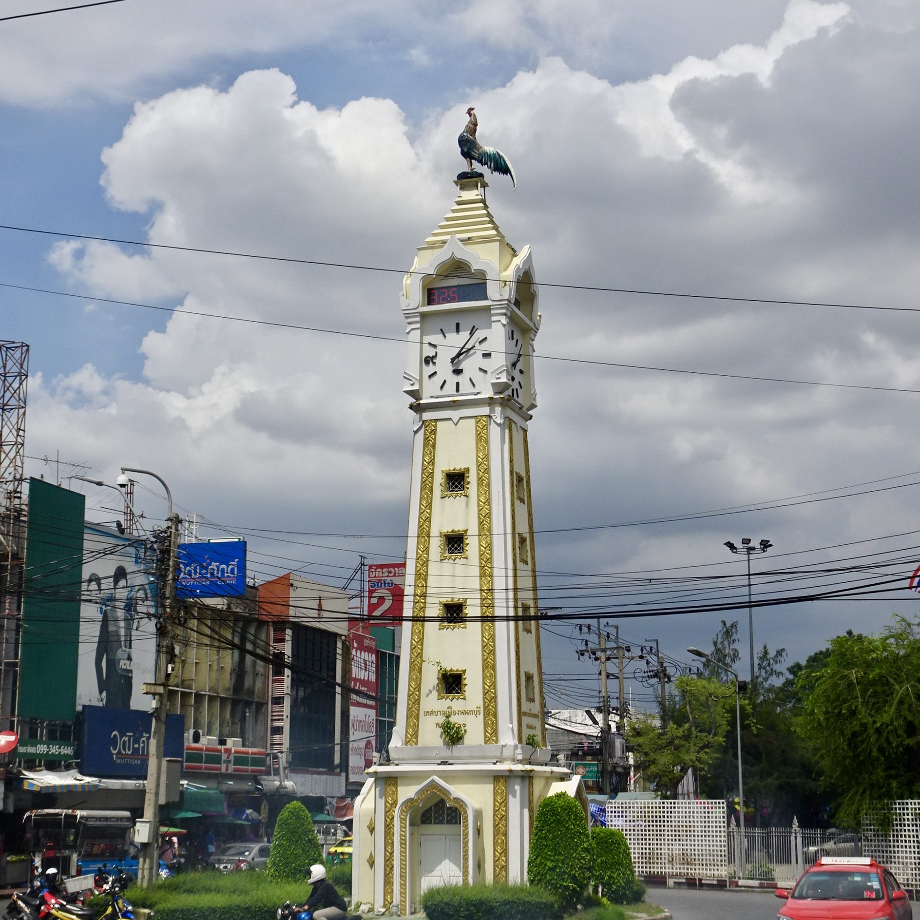 clock tower at Nonthaburi pier